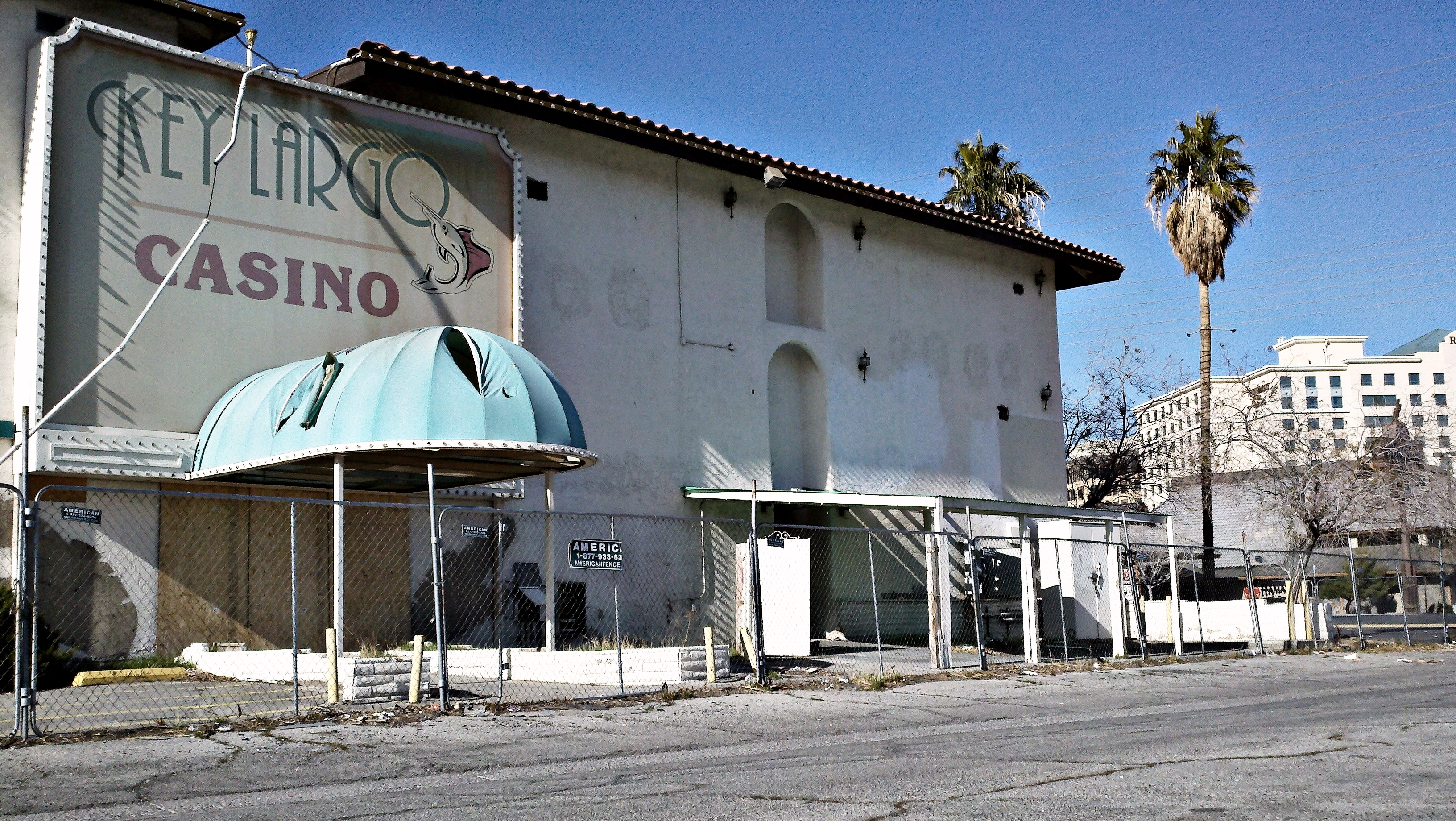 The closed Key Largo casino/hotel in Las Vegas, Nevada, pictured in January 2011.